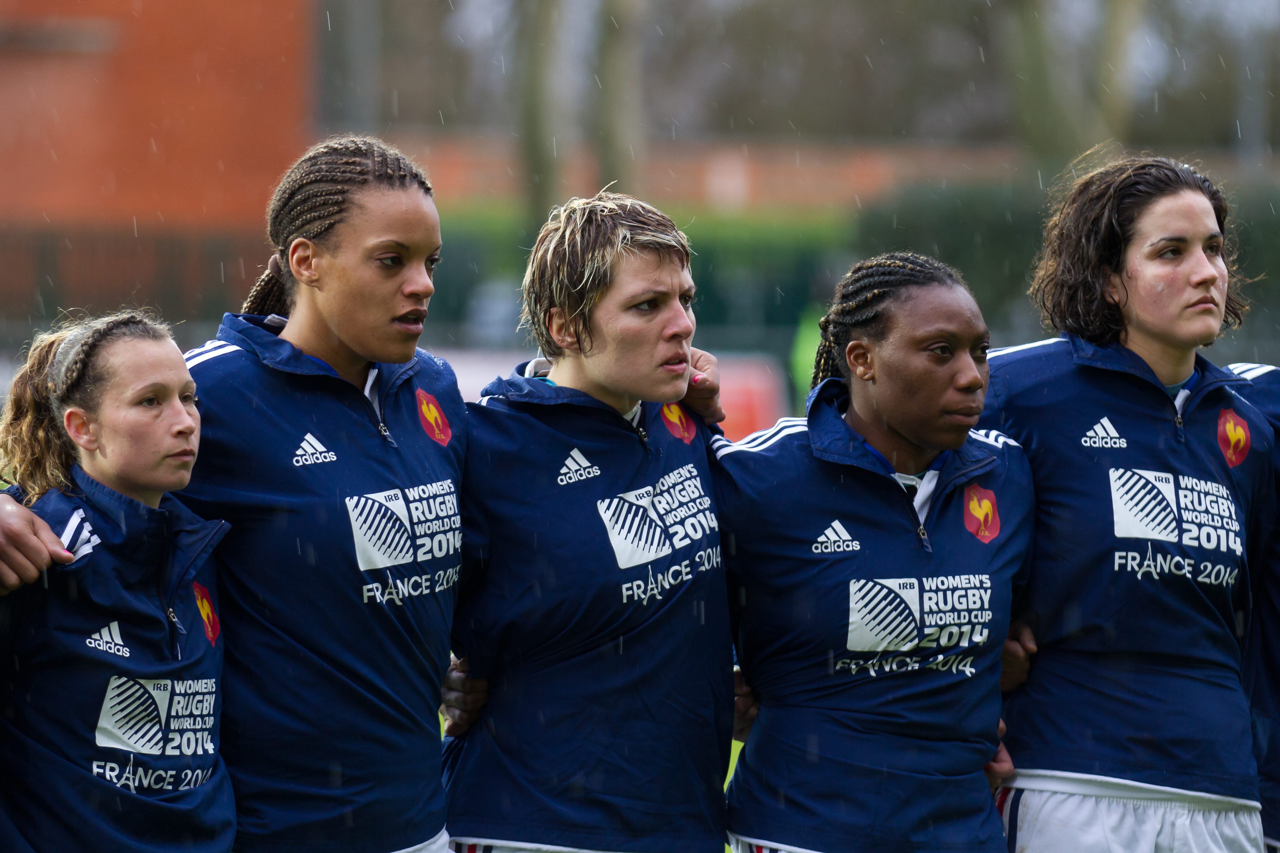 2014 Women's Six Nations Championship — 9 February 2014, Stade Ernest Argeles. Match between: France women's national rugby union team — Italy women's national rugby union team